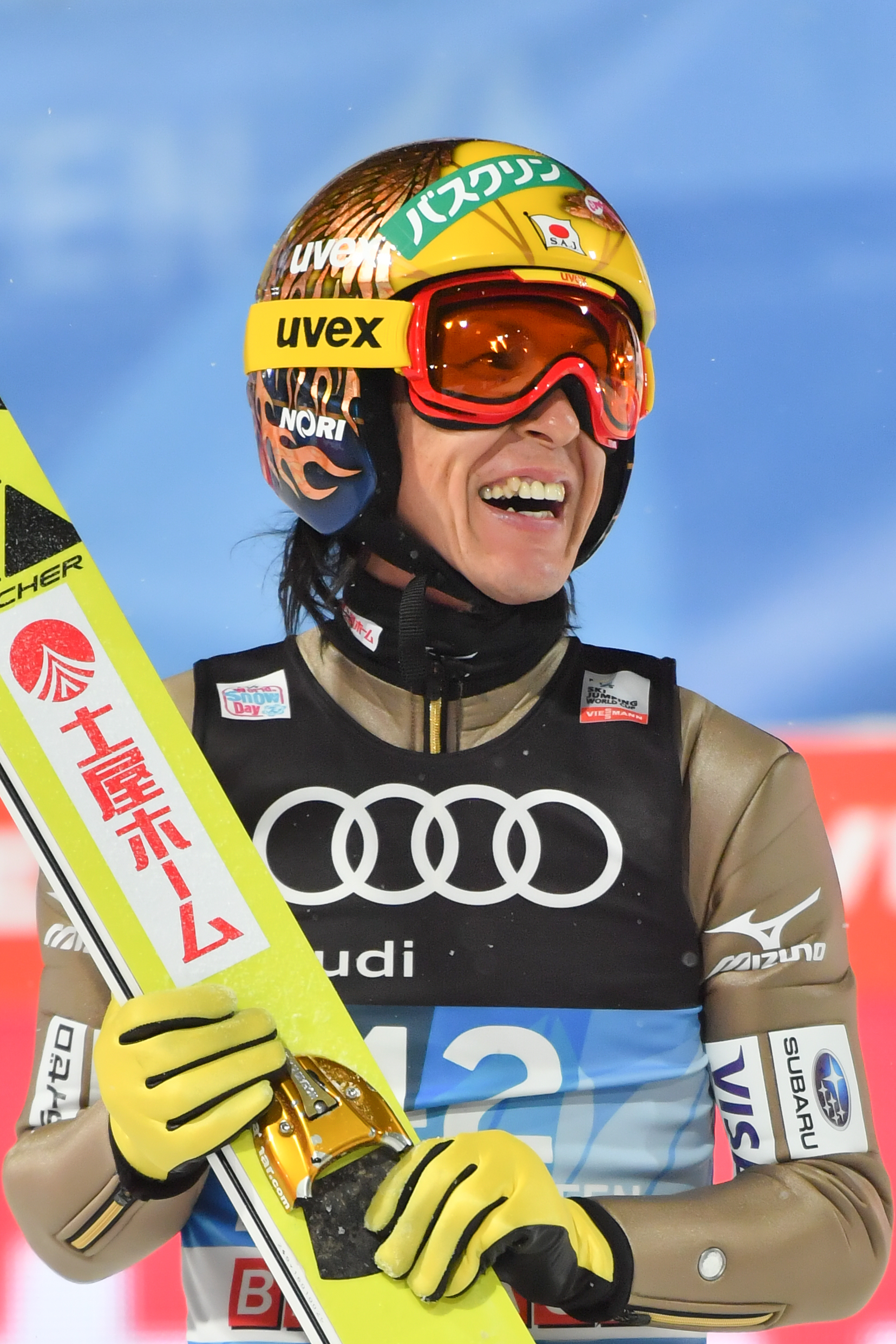 FIS Ski Jumping World Cup, Four Hills Tournament, Bischofshofen 2017. Image shows Noriaki Kasai (JPN).